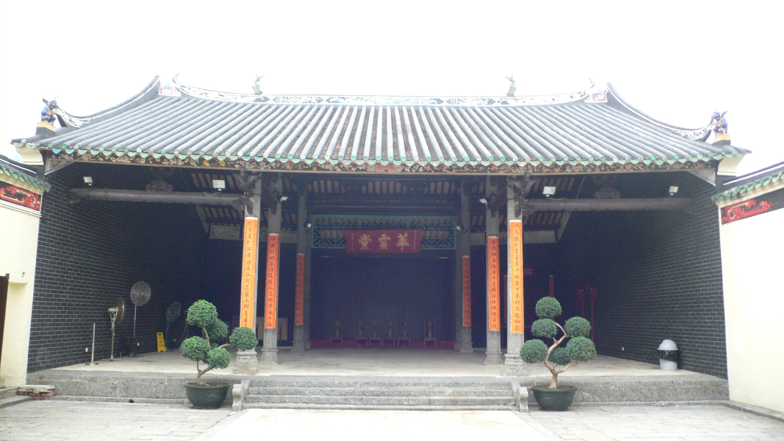 The inner view of Tang Chung Ling Ancestral Hall, Lung Yeuk Tau, Fanling, Hong Kong